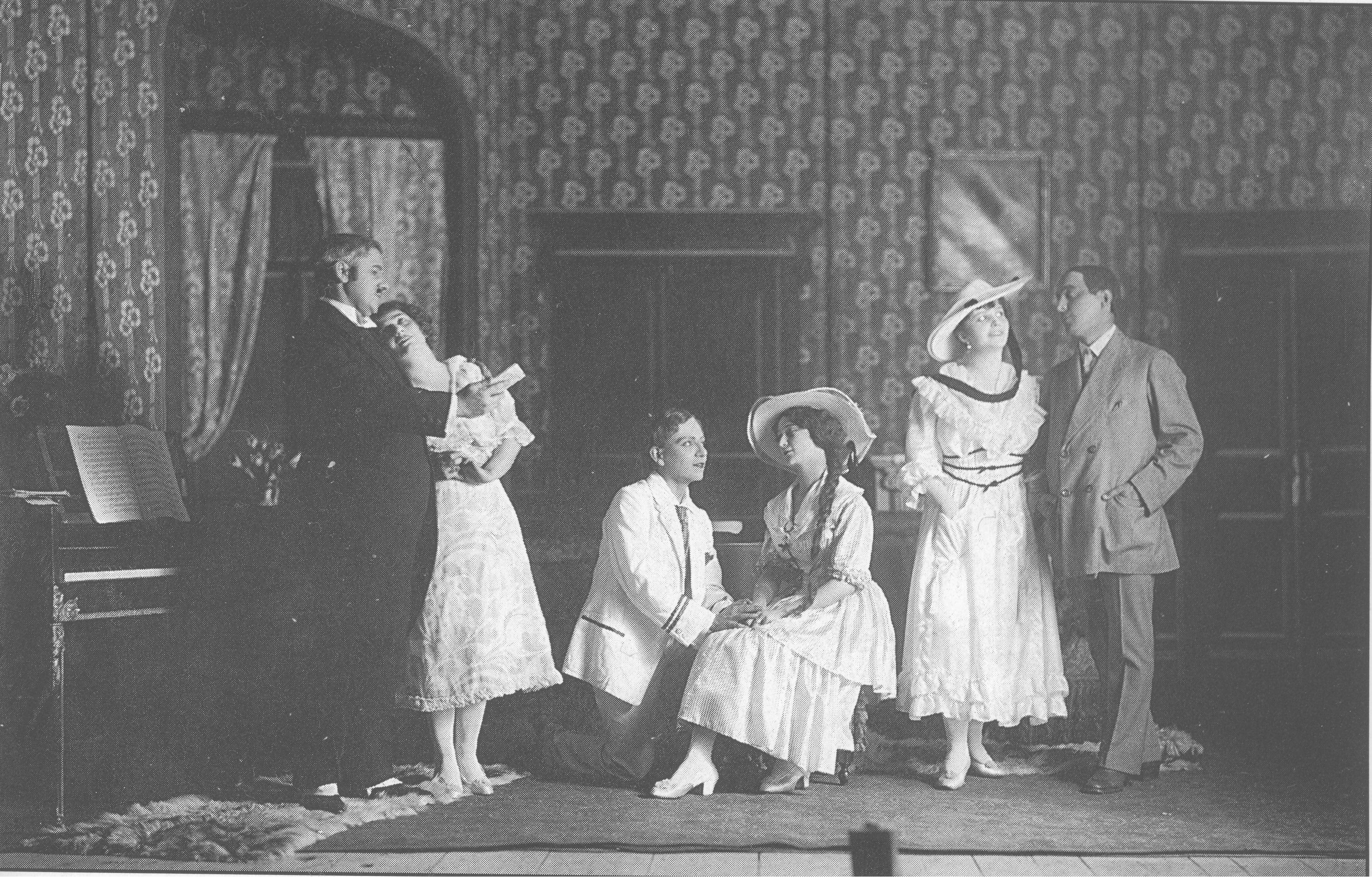 The final tableau of 1916 (České Budějovice) East-Bohemian Theatre Company production of Oskar Nedbal's operetta Vinobraní / Die Winzerbraut